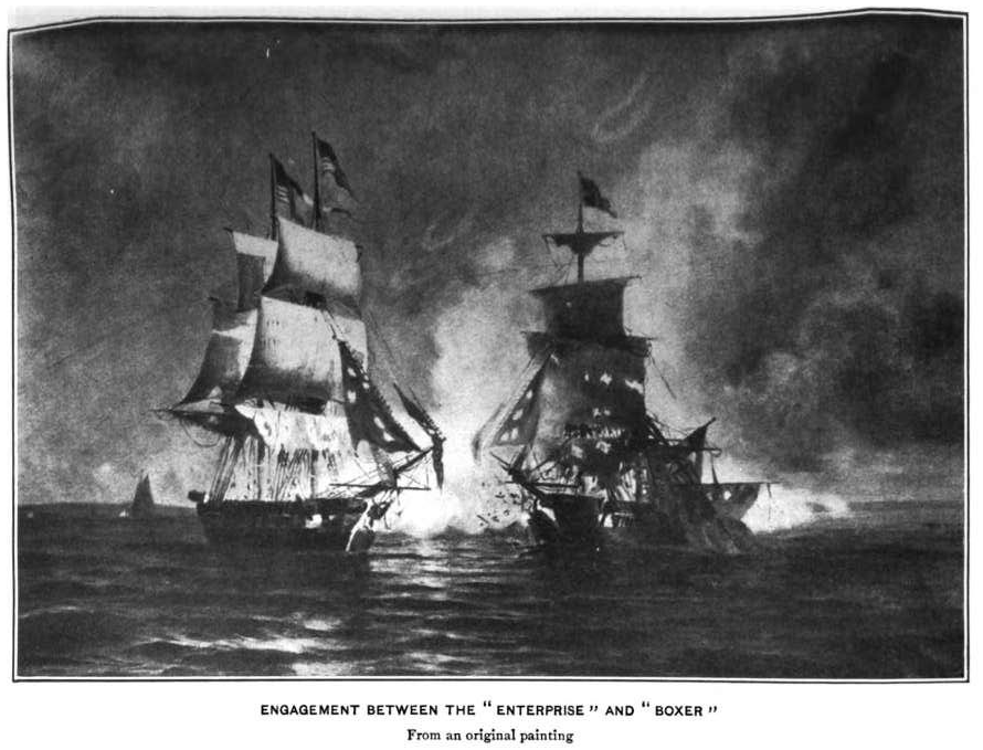 Taken from the pages of a book who's copyright has long since expired